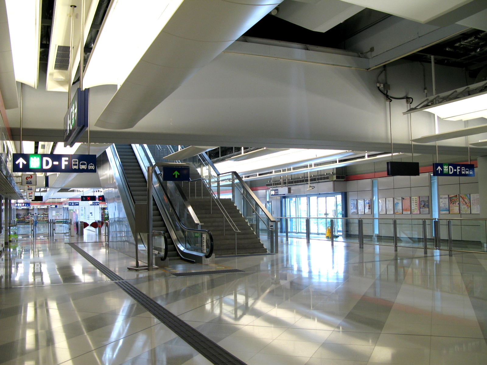 HK KCR West Rail Long Ping Station lobby